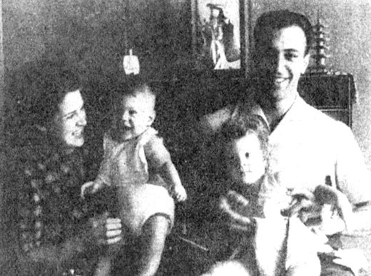 Gene Bacque (Right) and his family.